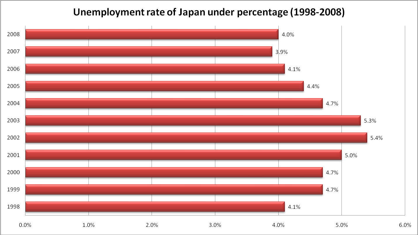 Unemployment rate of Japan under percentage in a period from 1998 to 2008. Raw information taken from Ministry of internal affairs and communications-Japan